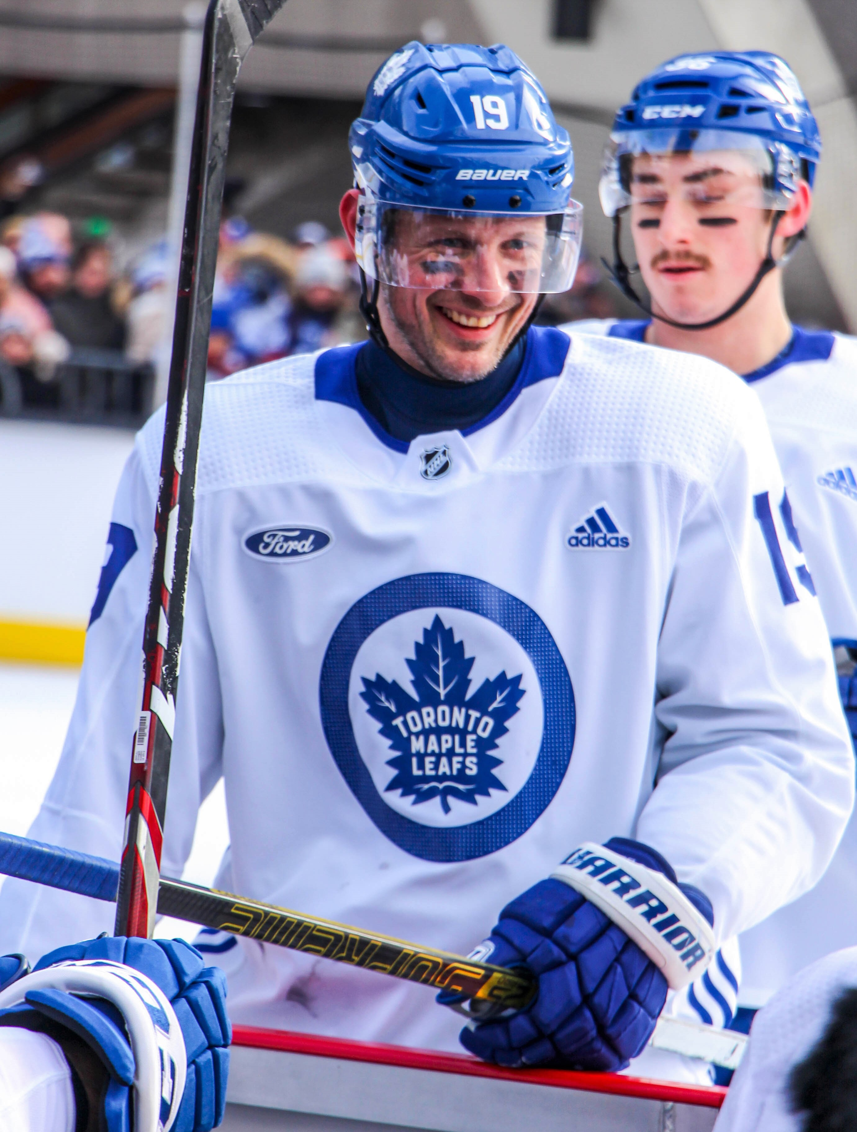 Jason Spezza at the Toronto Maple Leafs outdoor practice.